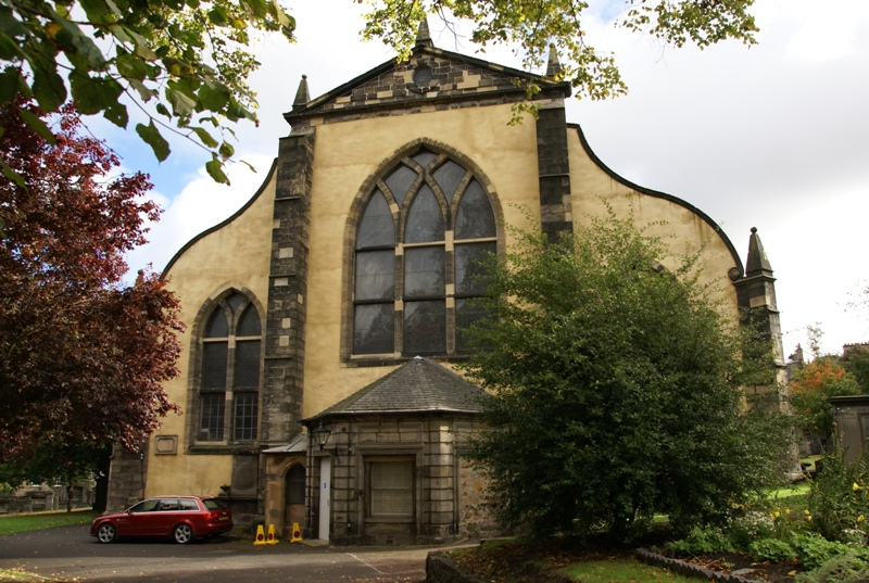 Greyfriars' Kirk, Edinburgh, Scotland. West side.